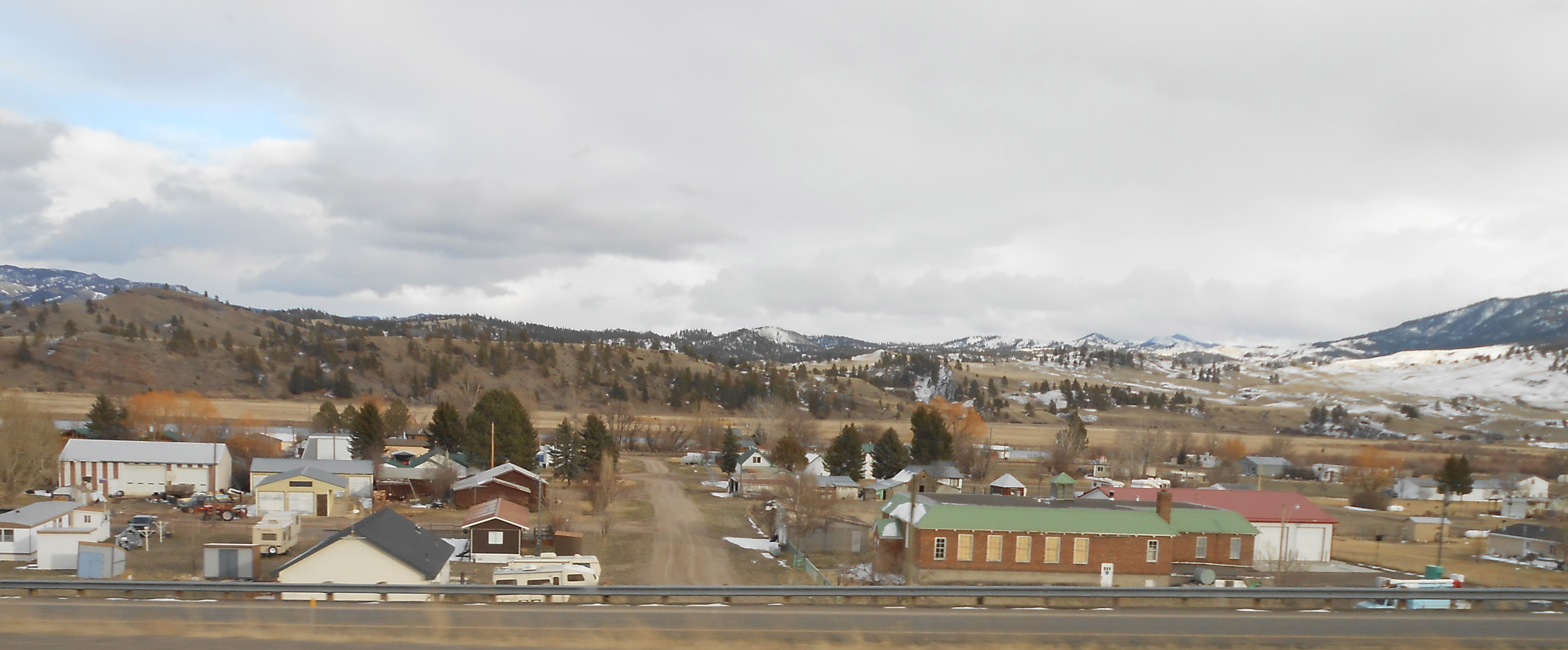 Craig, Montana, as viewed from Interstate 15